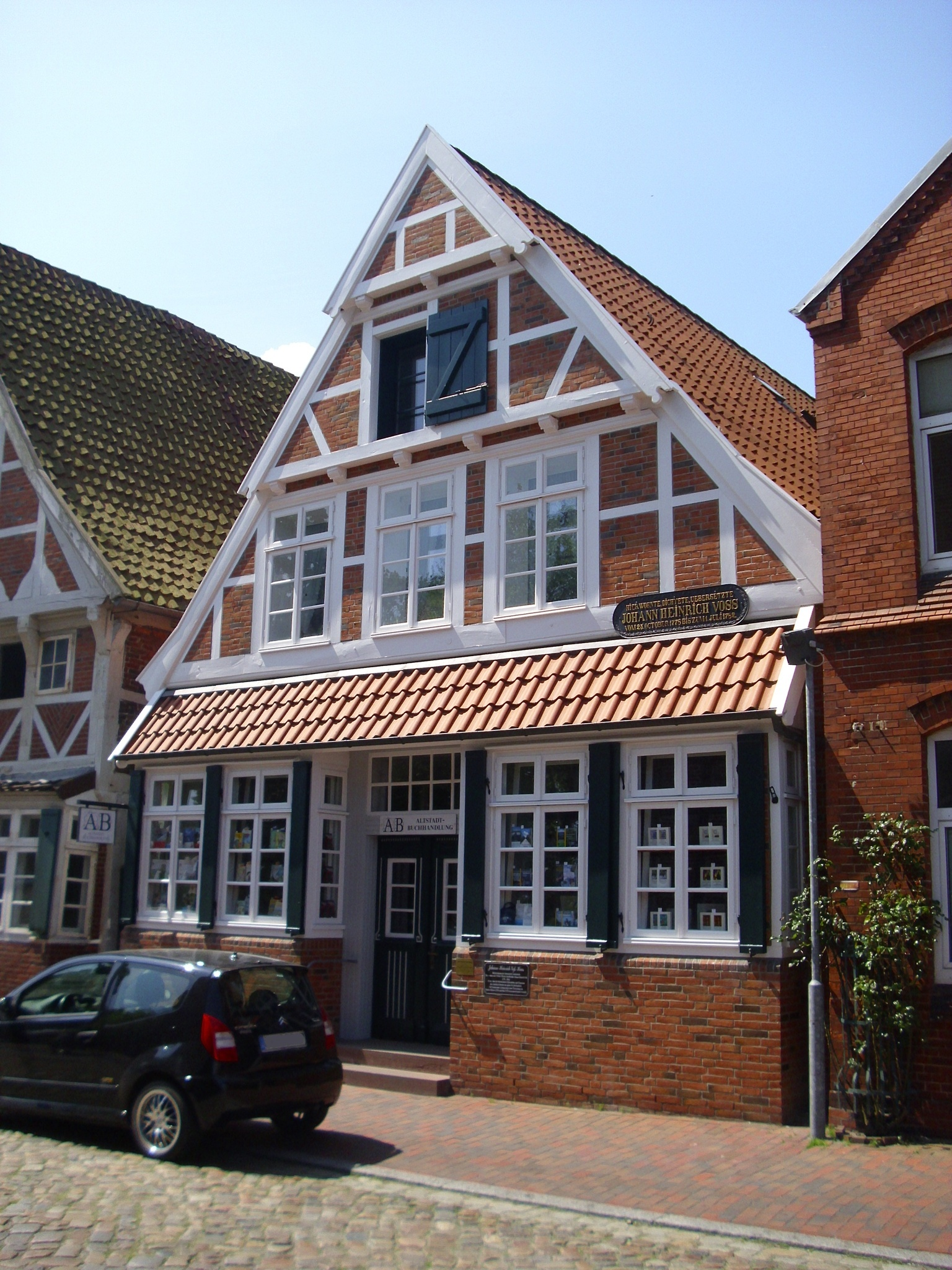 The house where Johann Heinrich Voss lived during his stay in Otterndorf, Lower Saxony